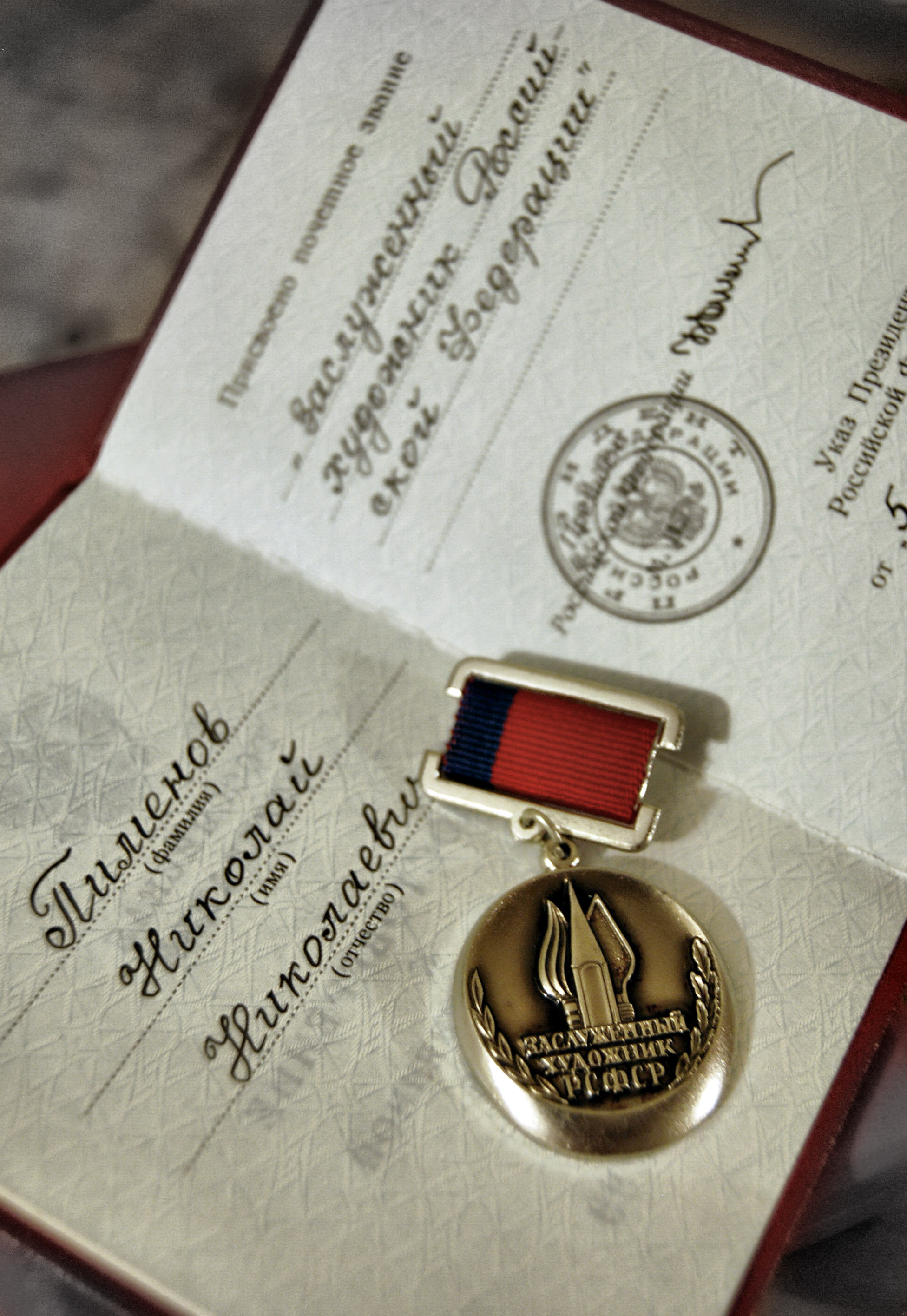 document